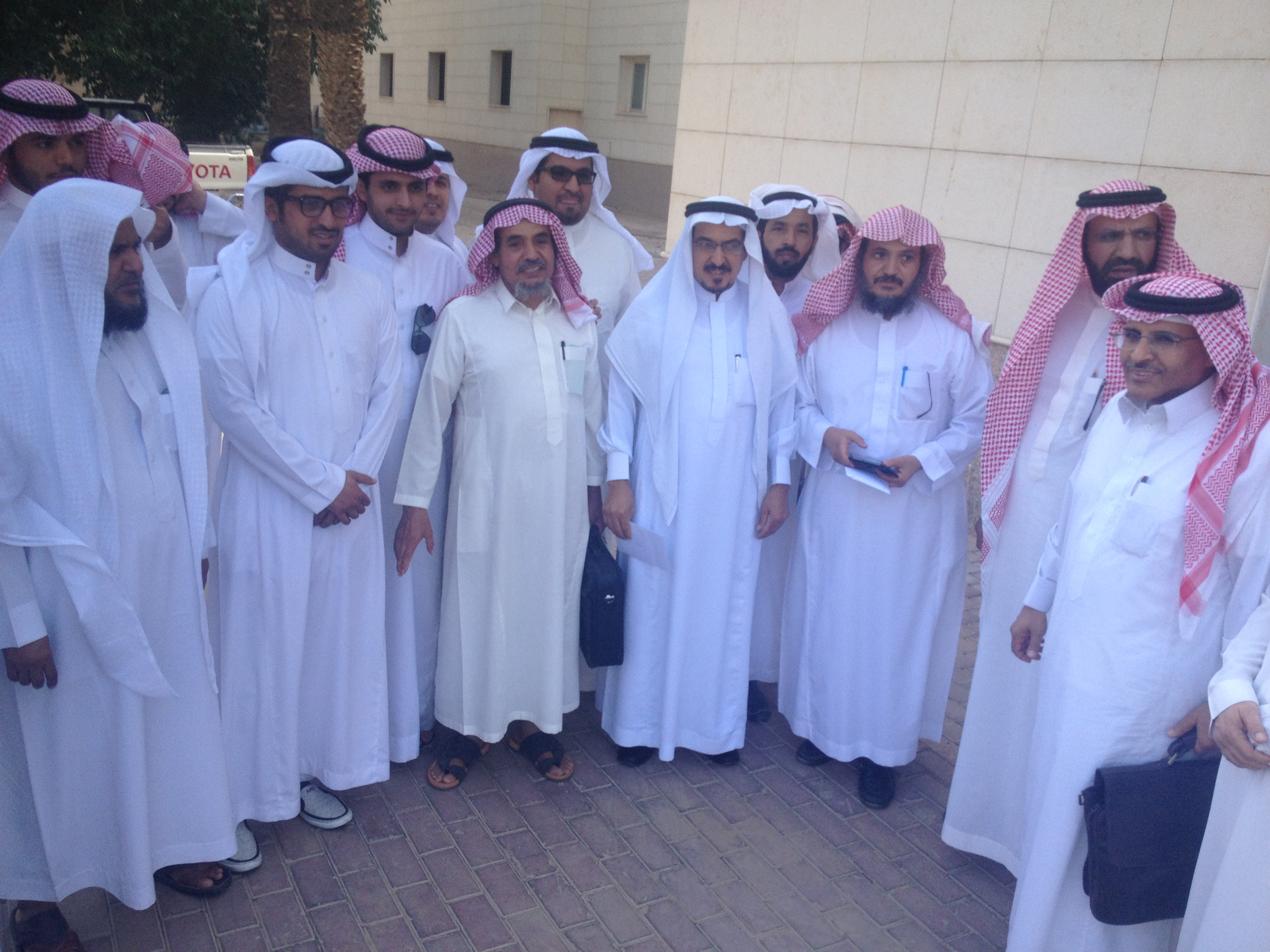 A group photo of the attendees of the fifth hearing session of ACPRA trial.